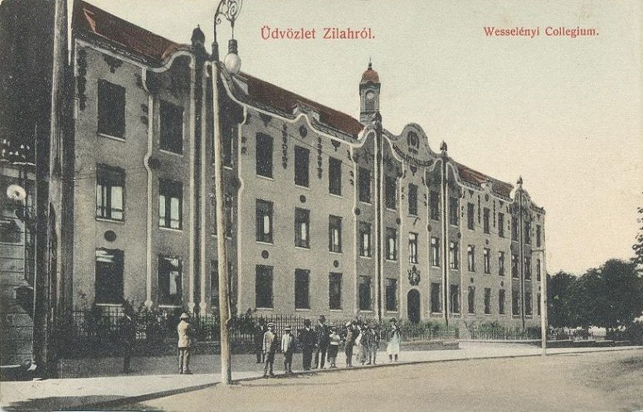 Wesselényi Collegium, Zalău in 1910